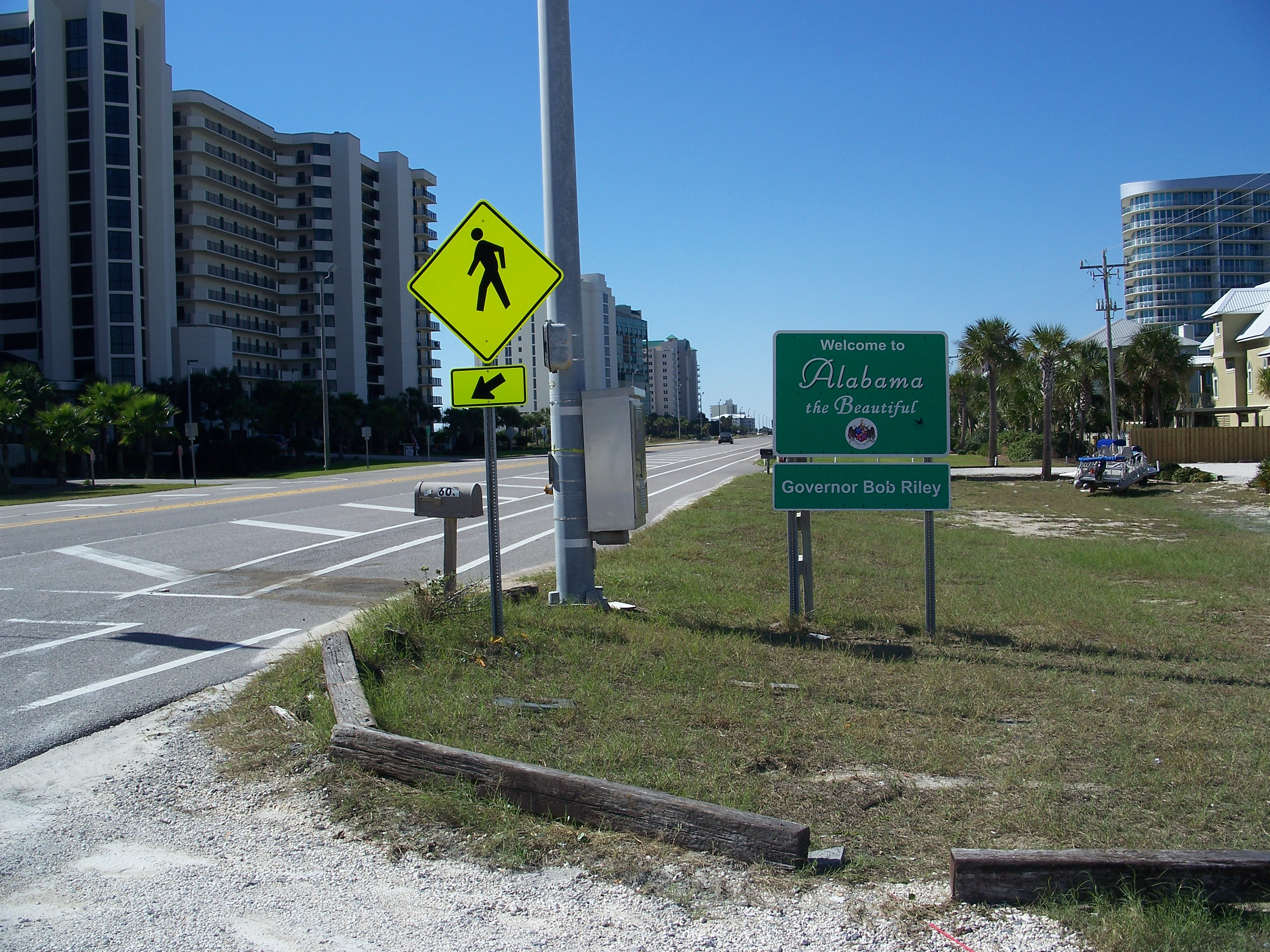 Perdido Key, Florida: State Road 292, looking west towards Florida